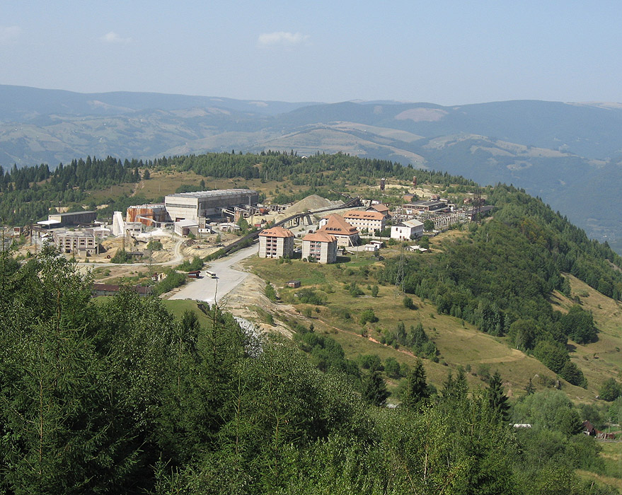 Old copper mine with workers quaters from communist days behind Roşia Montană, Judeţul Alba, Romania.